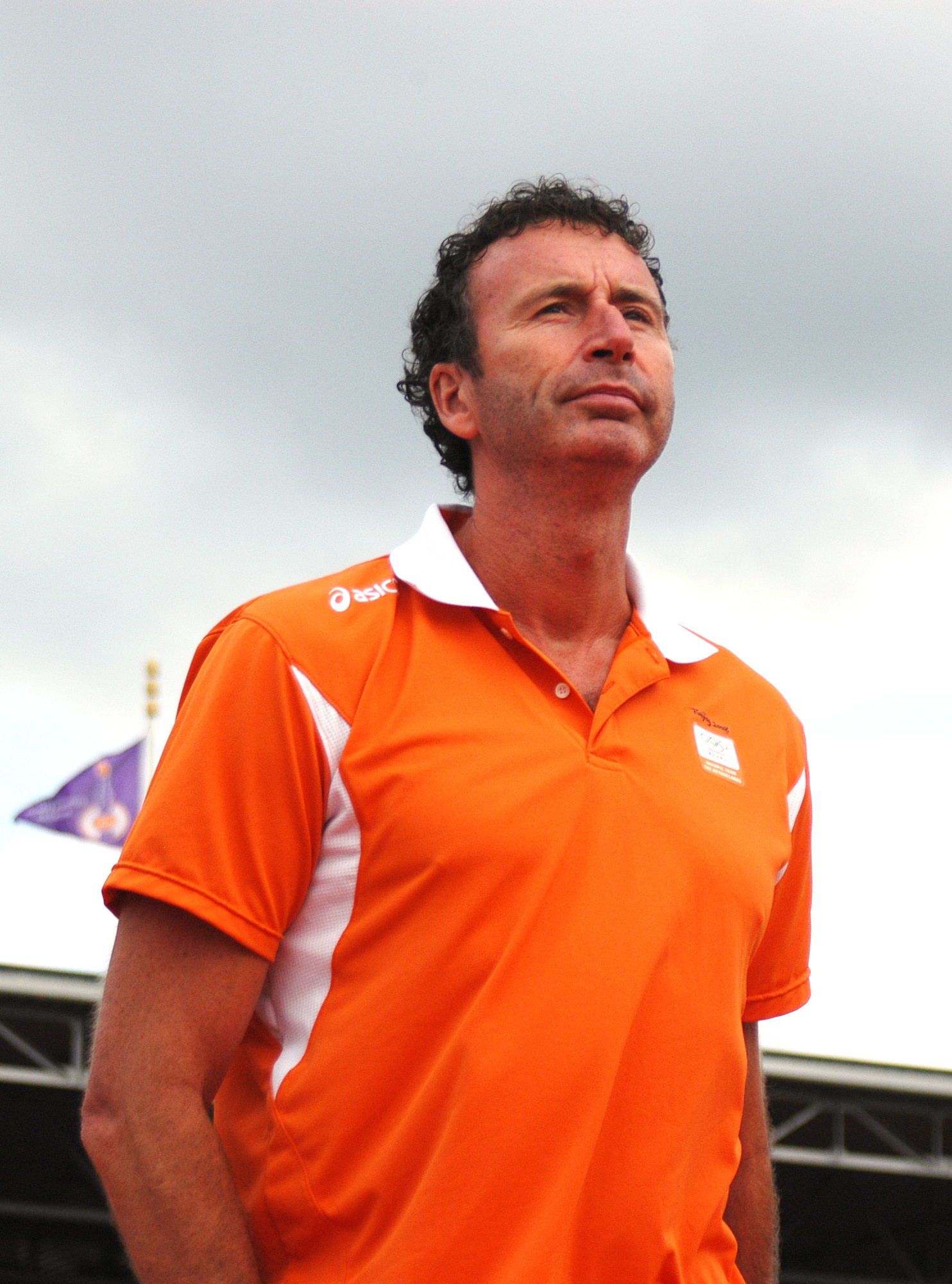 Bert Goedkoop at the Olympic welcome in the Olympic Stadium in Amsterdam, the Netherlands